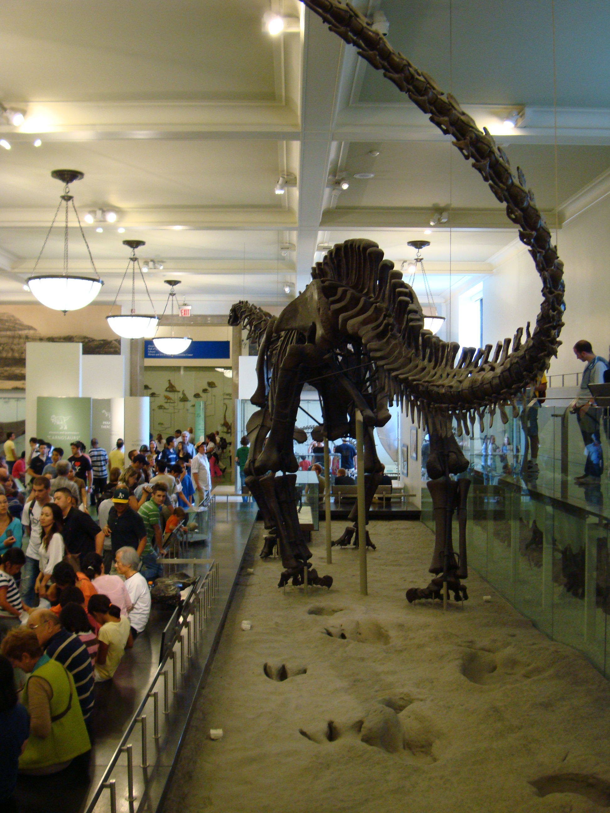 Trackway from the Paluxy River in Texas and a Apatosaurus excelsus skeleton at the American Museum of Natural History.